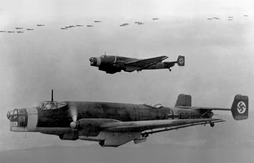 German Junkers Ju 86A or D bombers in flight.